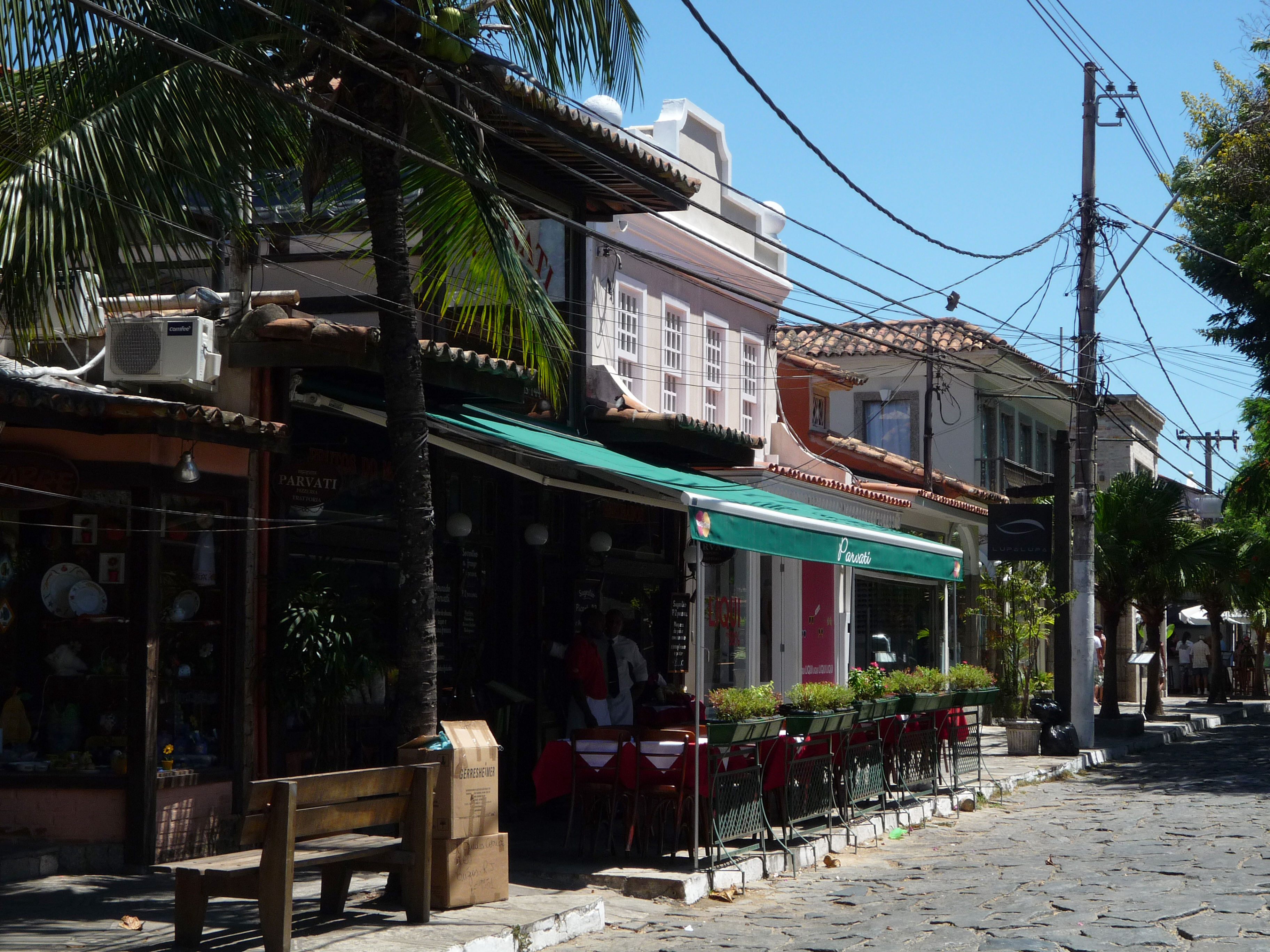 Rua das Pedras in Búzios, Brazil